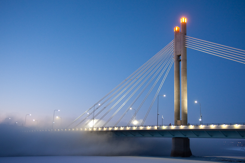 Rovaniemi – The ”Lumberjack's Candle Bridge